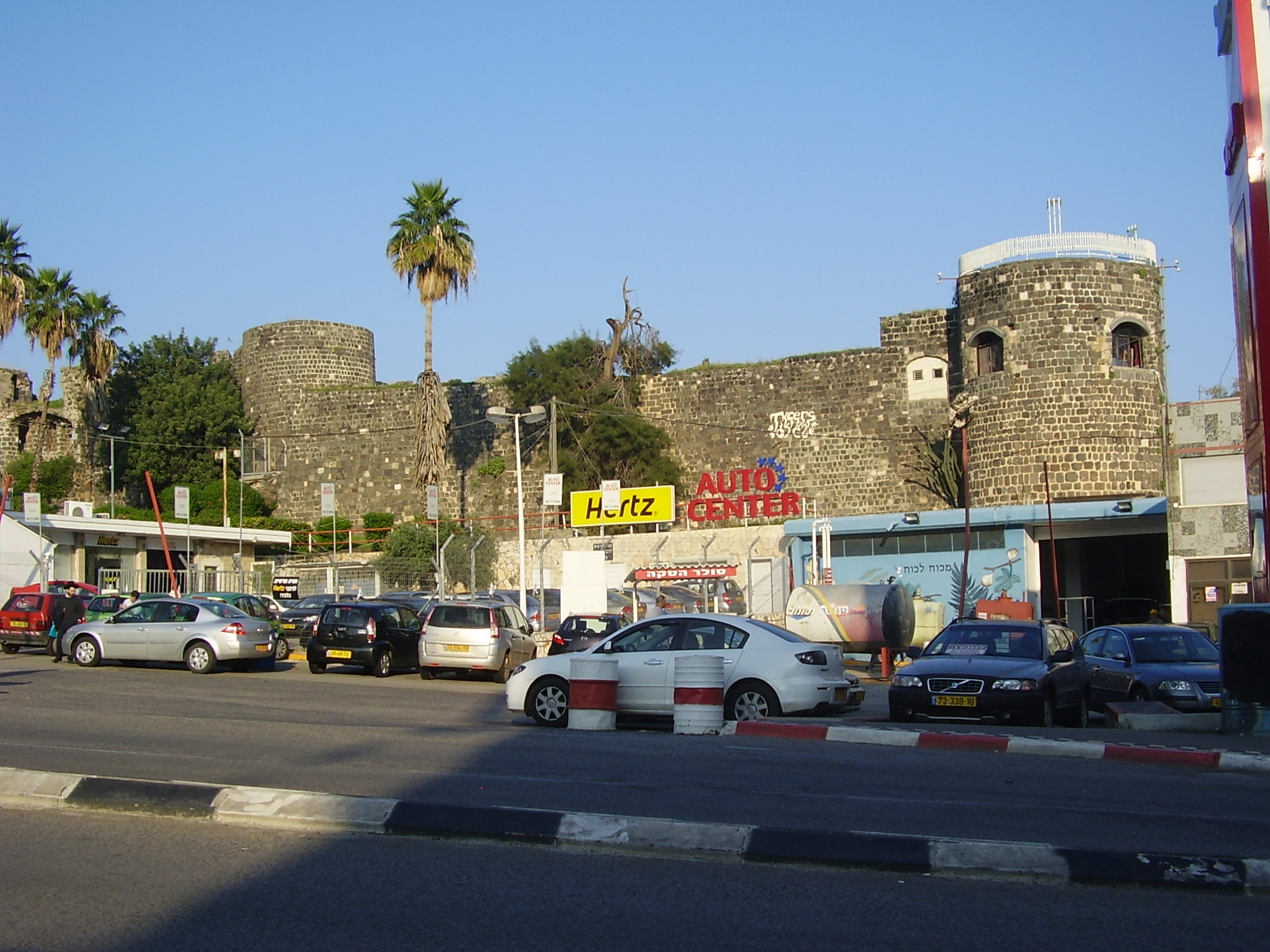 The citadel, Tiberias